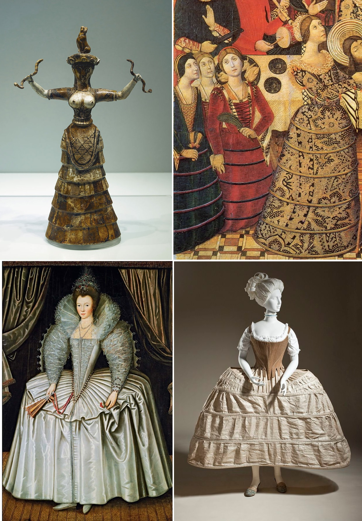 Examples of pre-19th century hoopskirts. The images are: Upper left: The so-called "Snake Goddess", as discovered and restored by Arthur Evans. 1600 BCE. Details (and even the whole object) could be a fake. Minoan. Often theorised that hoops were required to support the skirts, but this is usually dismissed by scholars. Upper right: Verdugada, 1470-80, as seen in the Retable of St. John the Baptist - detail of Salome and ladies wearing early verdugados (farthingales) or hoop skirts. Painted by Pedro García de Benabarre Lower left: Farthingale, c.1600, as seen in the Portrait of a Lady, 1595-1605 probably Elizabeth Southwell, granddaughter of Charles Howard, 1st Earl of Nottingham, as a maid of honour to Elizabeth I of England. Possibly Elizabeth, Frances or Margaret Howard, daughters of Charles Howard, 1st Earl of Nottingham. Unknown artist. Lower right: Hoop petticoat or pannier, English, 1750-80. Plain-woven linen and cane. Los Angeles County Museum of Art. (M.2007.211.198)